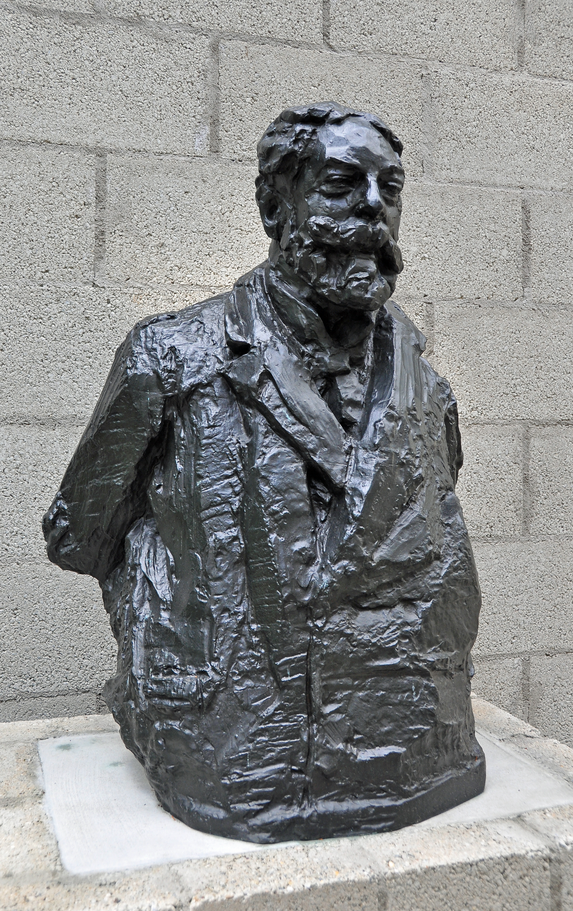 Portrait ofJames Ensor, 1913. Sculpture by Rik Wouters (1882-1916). Kröller-Müller museum, Otterloo, the Netherlands.